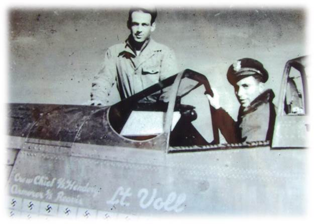 John J Voll of 308 FS, 31 FG with his crew chief